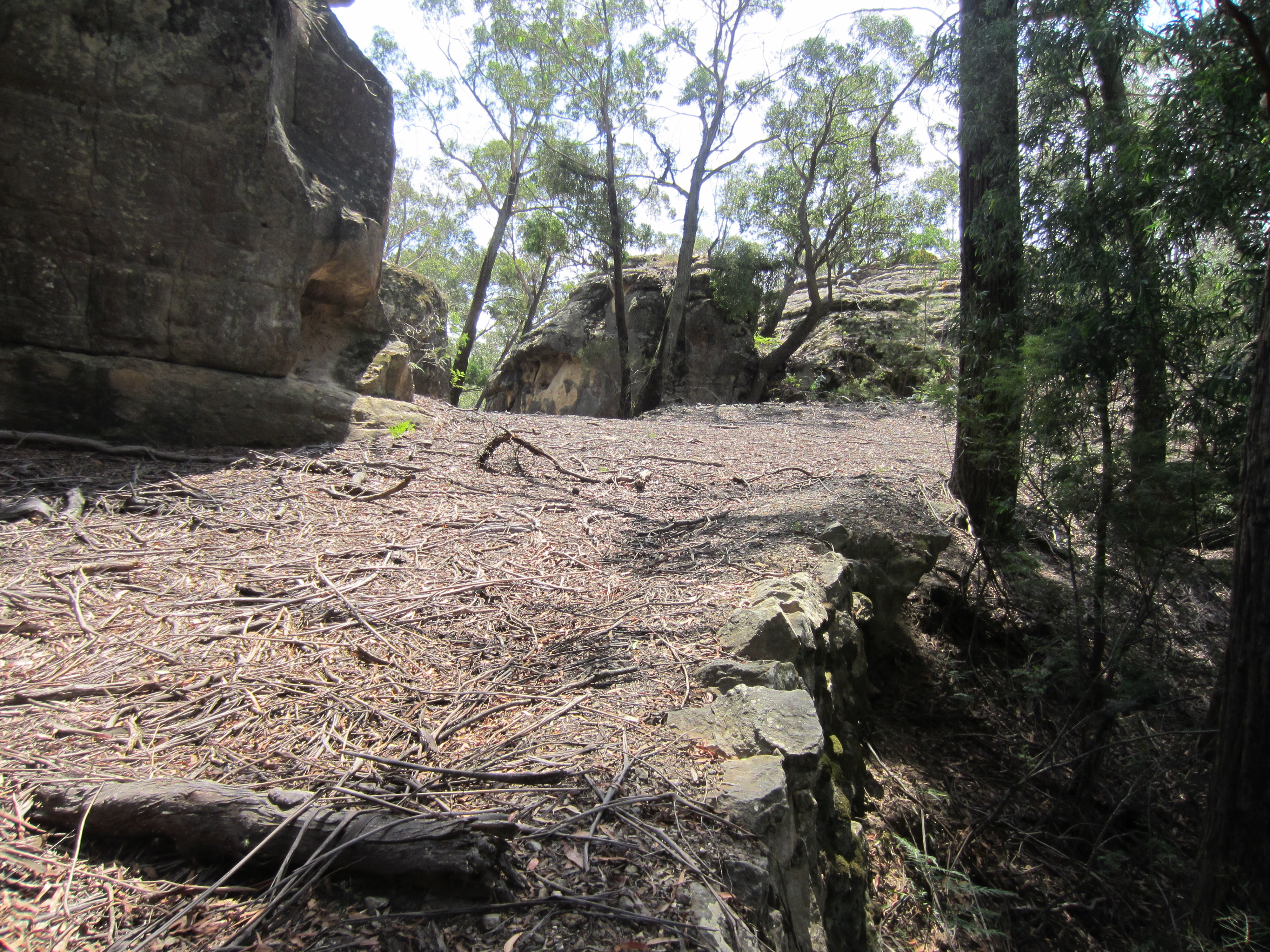 Preserved section of 1856 Braidwood Road (note drystone embankment on the right) with junction with older (1841) Wool Road that emerges from the man-made Bulee Gap cutting (in centre background).